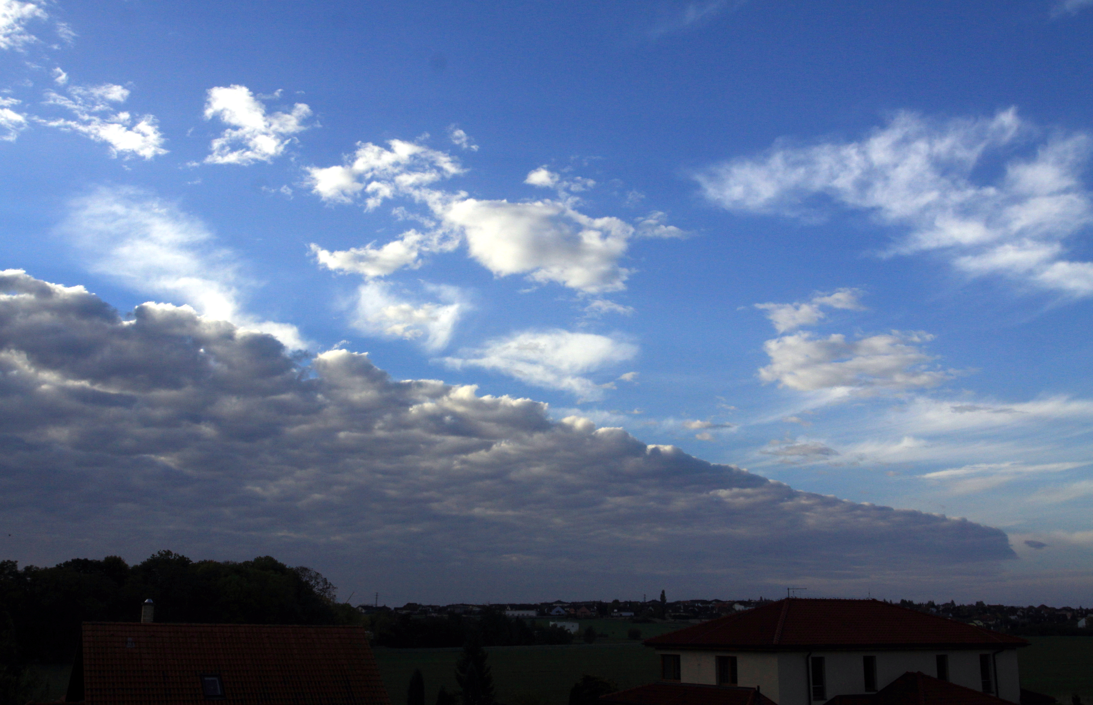 Cold front moving above the Zdiměřice village, part of Jesenice town in the Prague-West Region, Czechia.